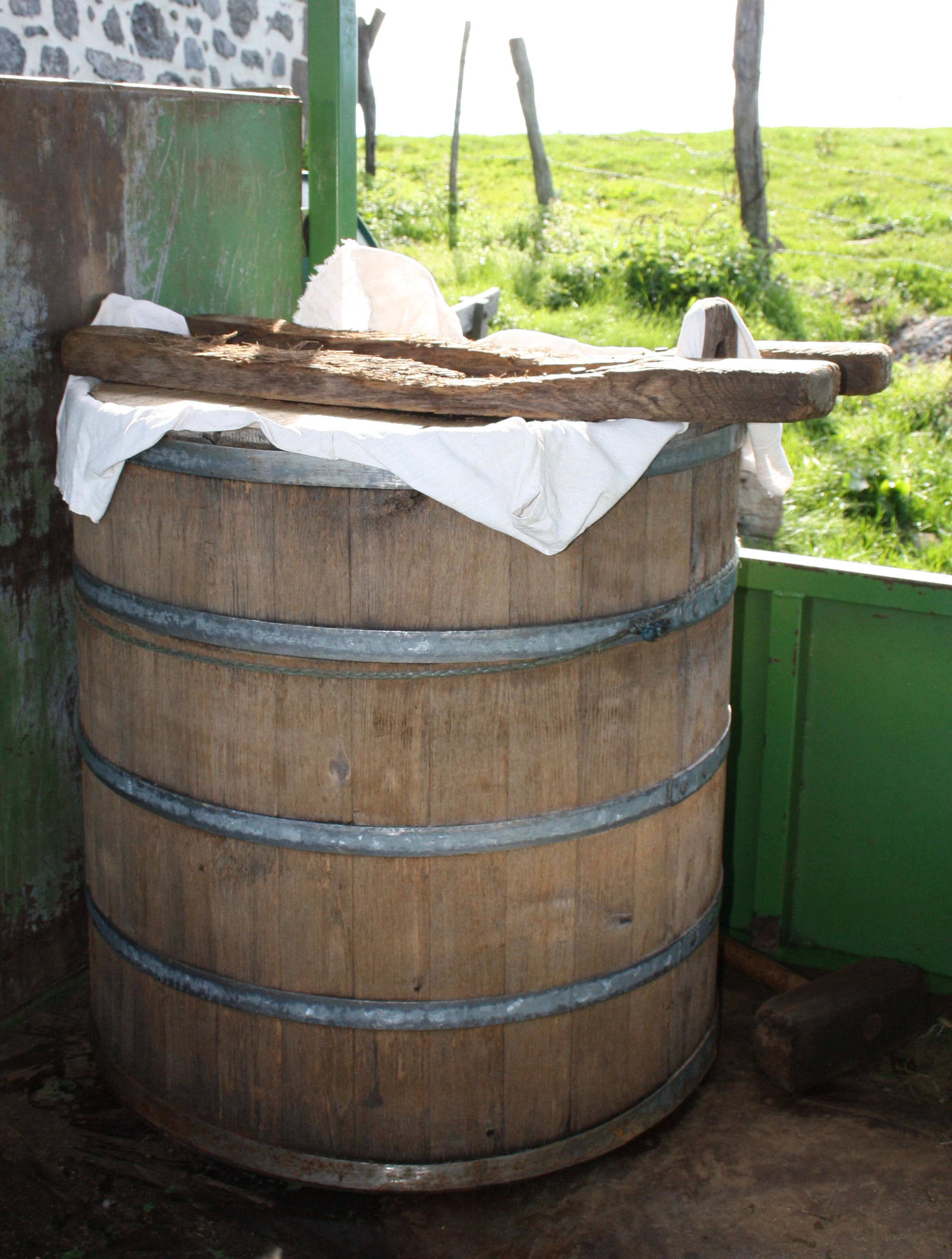 The "Gerle" is a wooden barrel used to collect the milk before preparing the Salers cheese.